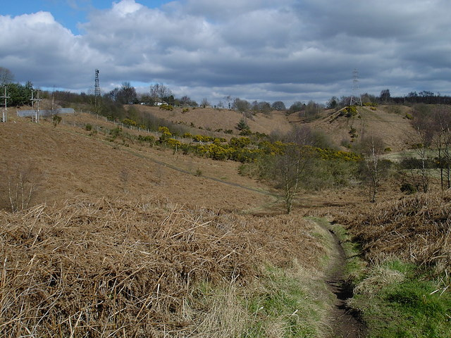 Annesley - Robin Hood Hills (west)